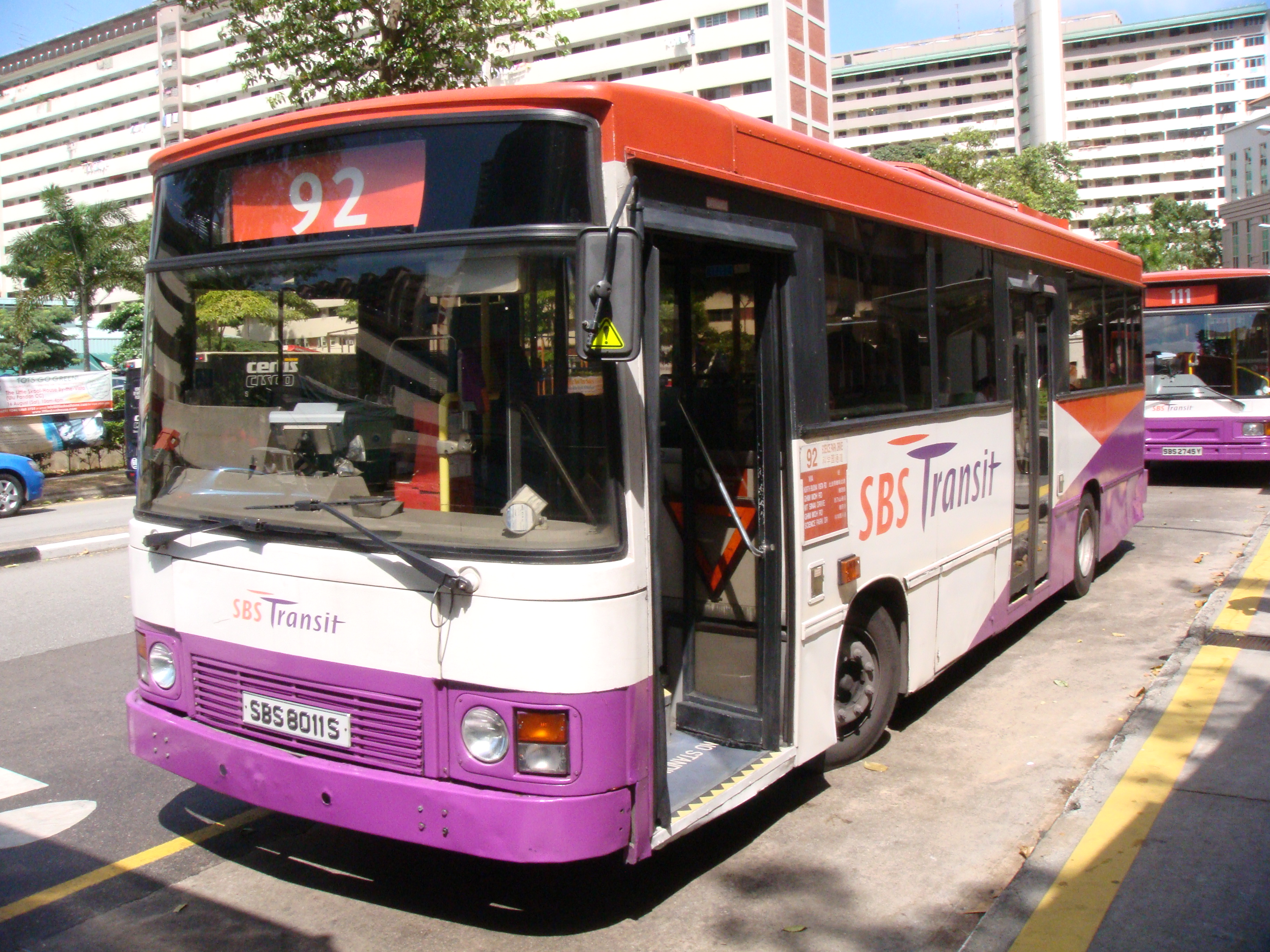 Exterior of a SBS Transit Dennis Dart at Ghim Moh, Singapore.